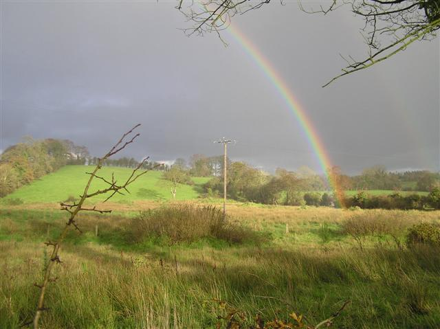 Rainbow near Omagh Why does it always look brighter inside the arc?